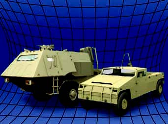 Artists impression of the two variants of the Future Tactical Truck Systems vehicle.